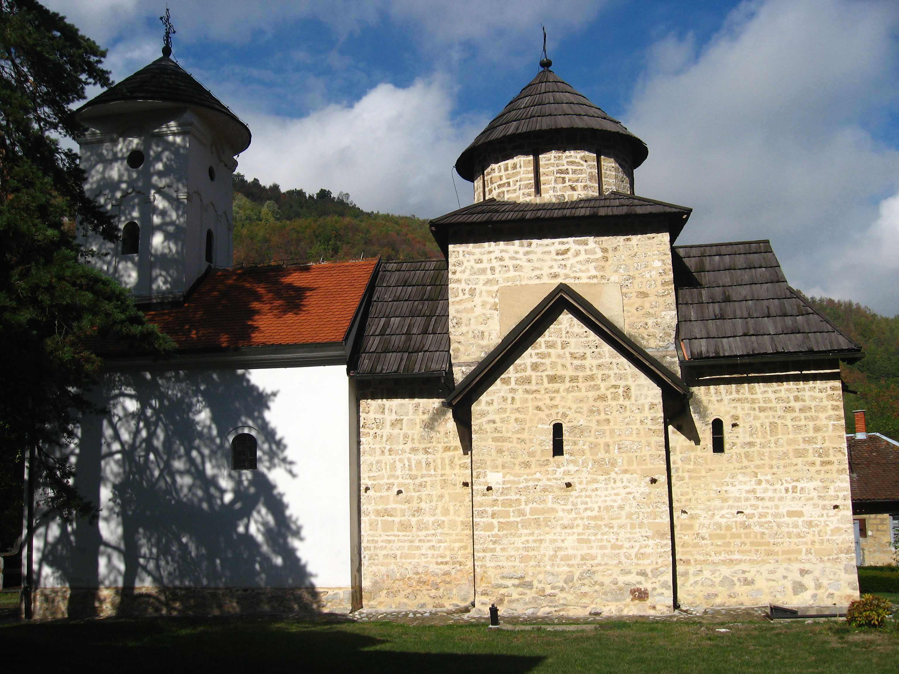 Medvednik - Western Serbia - village Vujinovača - monastery Pustinja